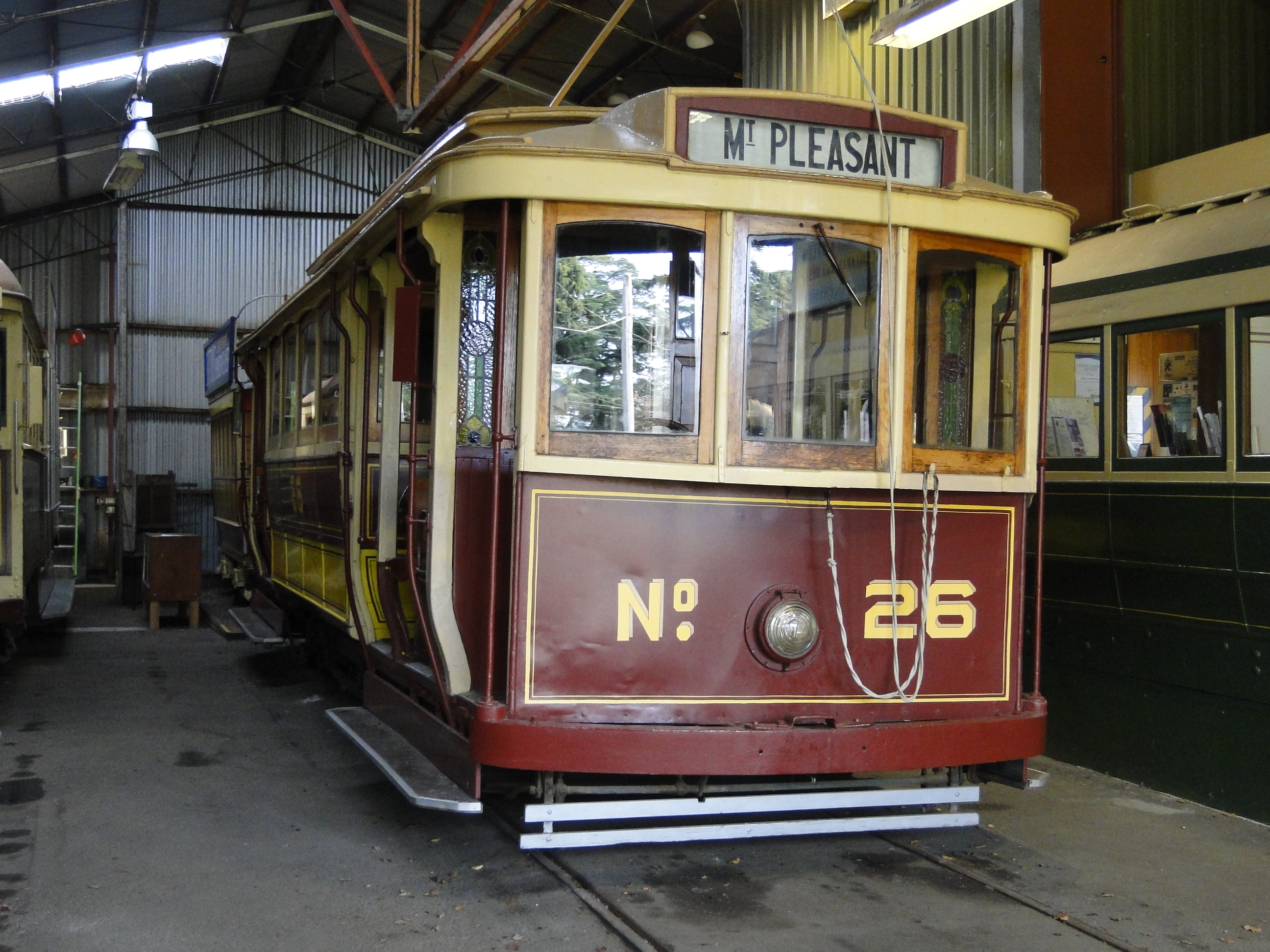 Ballarat tram No. 26, built in 1916 by Duncan and Fraser for the Hawthorn Tramways Trust, in the Ballarat Tramway Preservation Society depot at Lake Wendouree, Ballarat, Victoria, Australia.